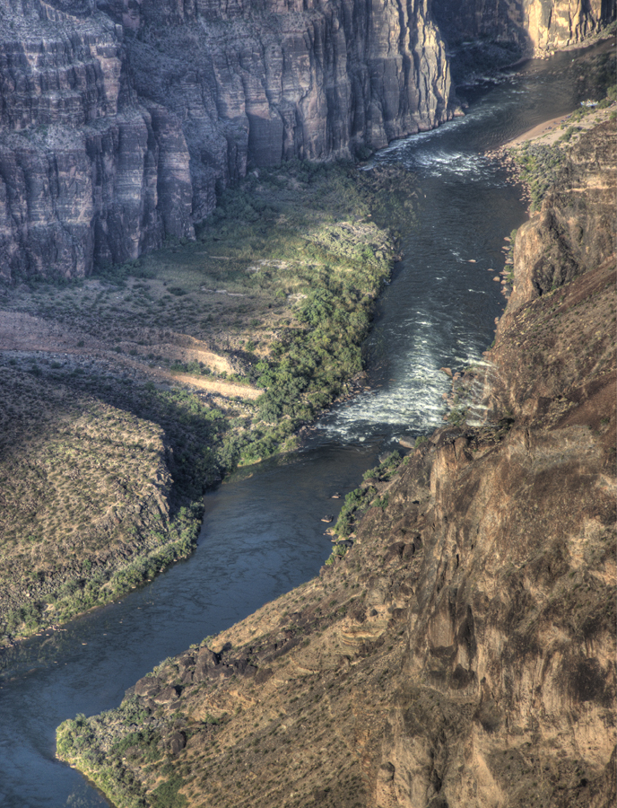 This, I was told, is the biggest drop on the river in the GC. It's 35 feet from top to bottom of the falls. The photo was taken from the Toroweap overlook.